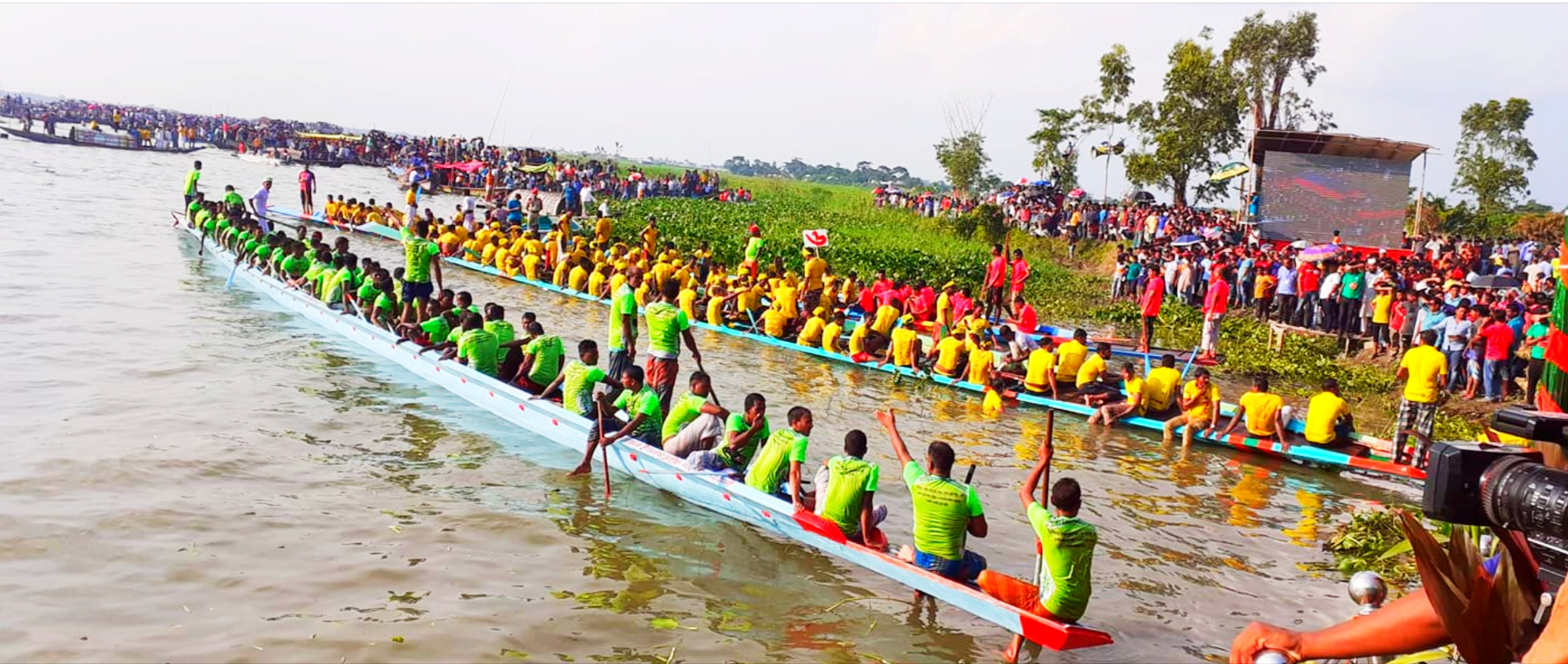 Boat competition in comilla, Bangladesh. (2019)